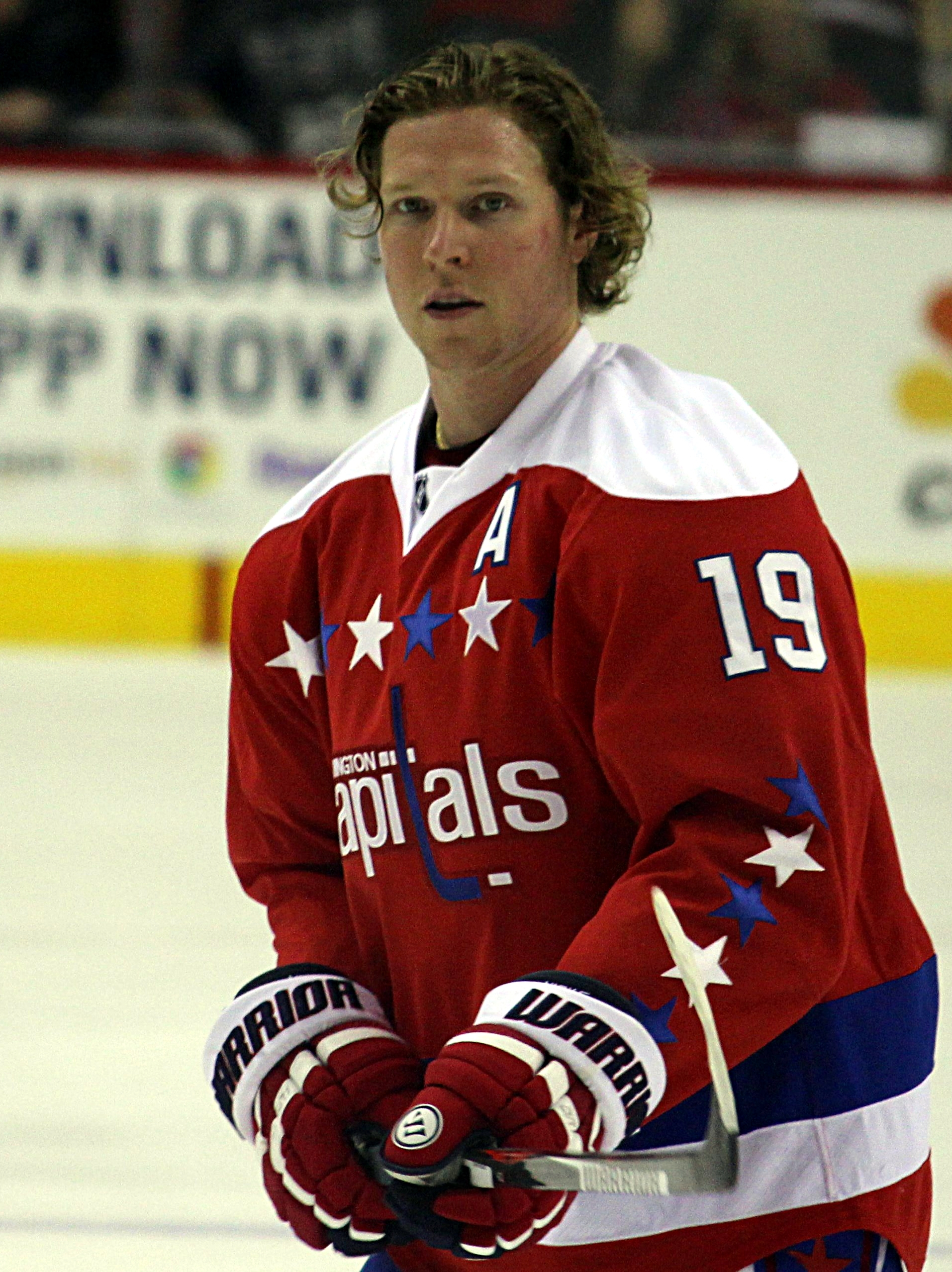 Washington Capitals forward Nicklas Backstrom during a game against the Pittsburgh Penguins, Thursday, April 7, 2016 at Verizon Center in Washington, D.C.